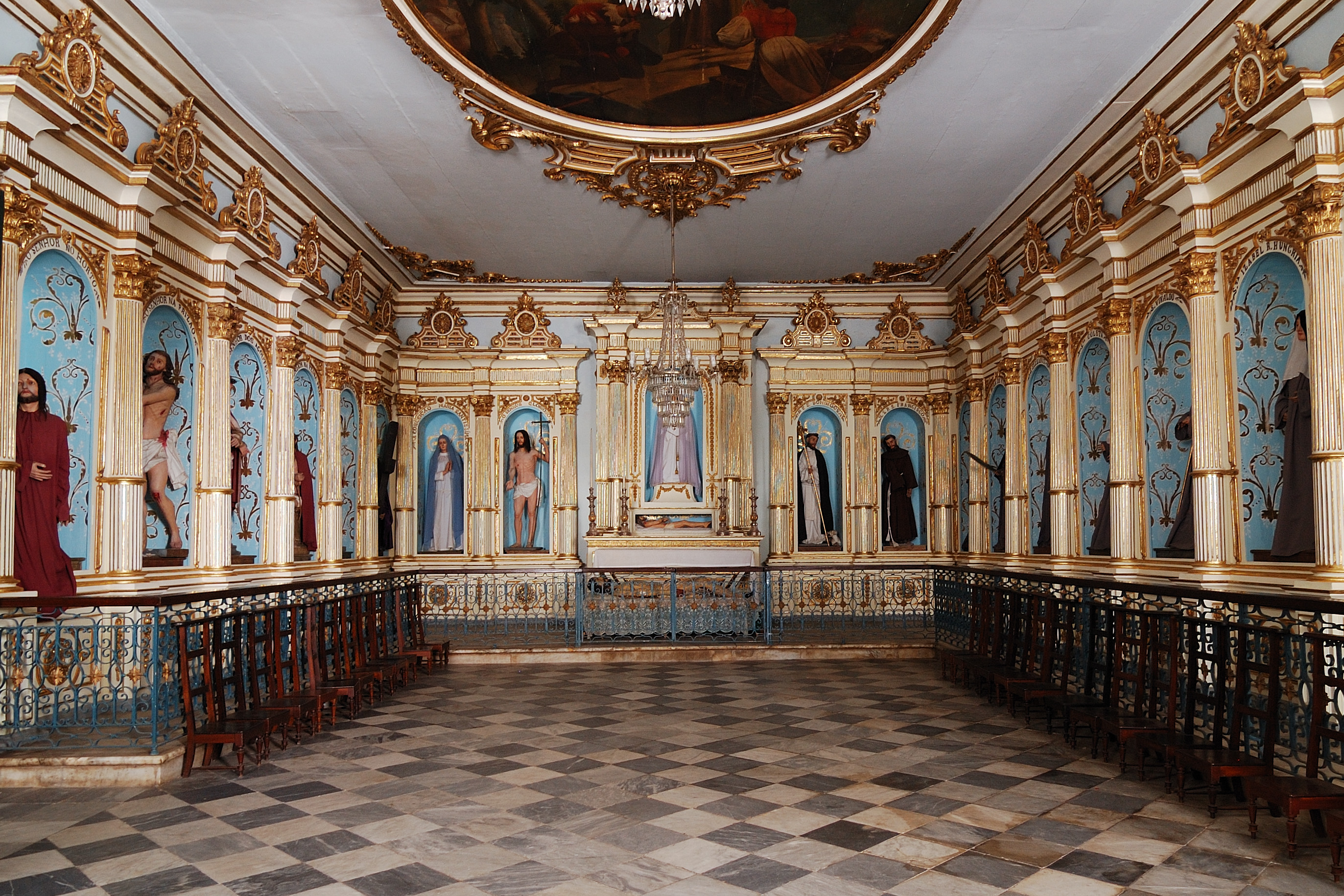 Room inside the complex of the Third Order of Saint Francis Church in Salvador, Bahia, Brazil